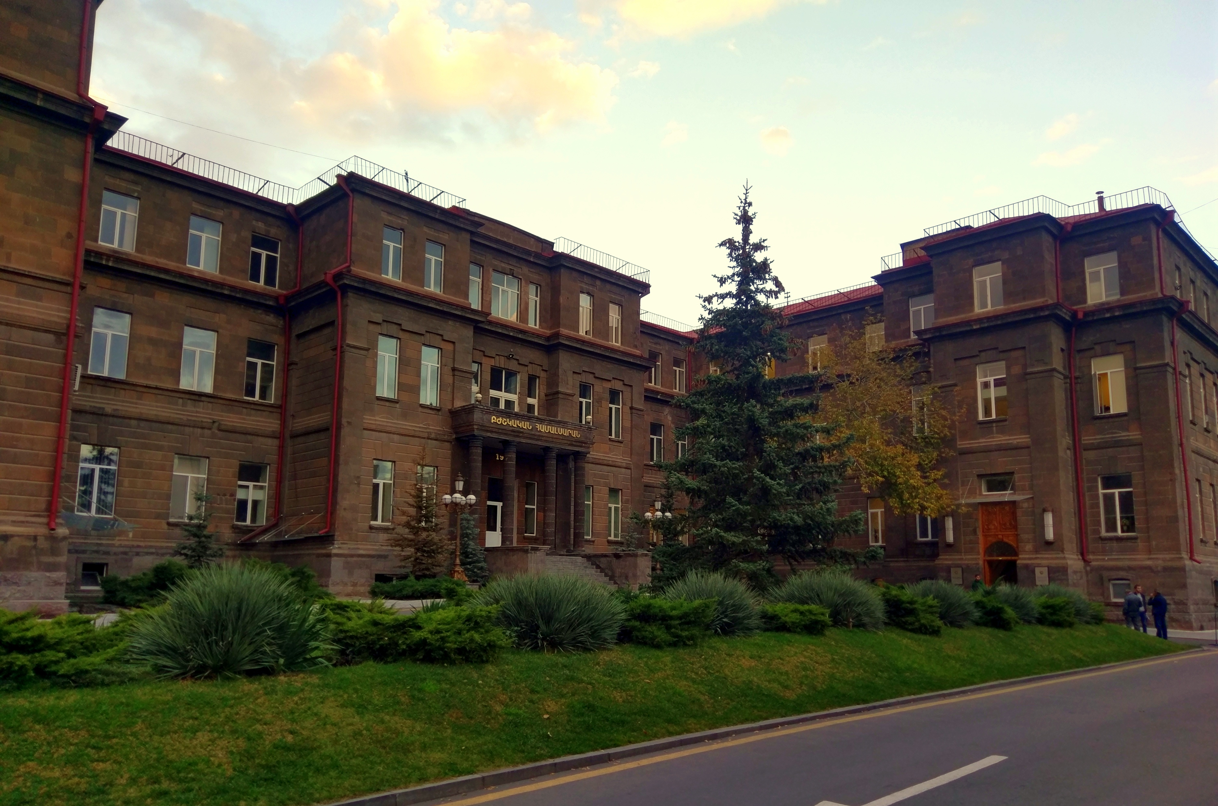 YSU Heratsi hospital NO.1 Yerevan, building dates back to 1914.